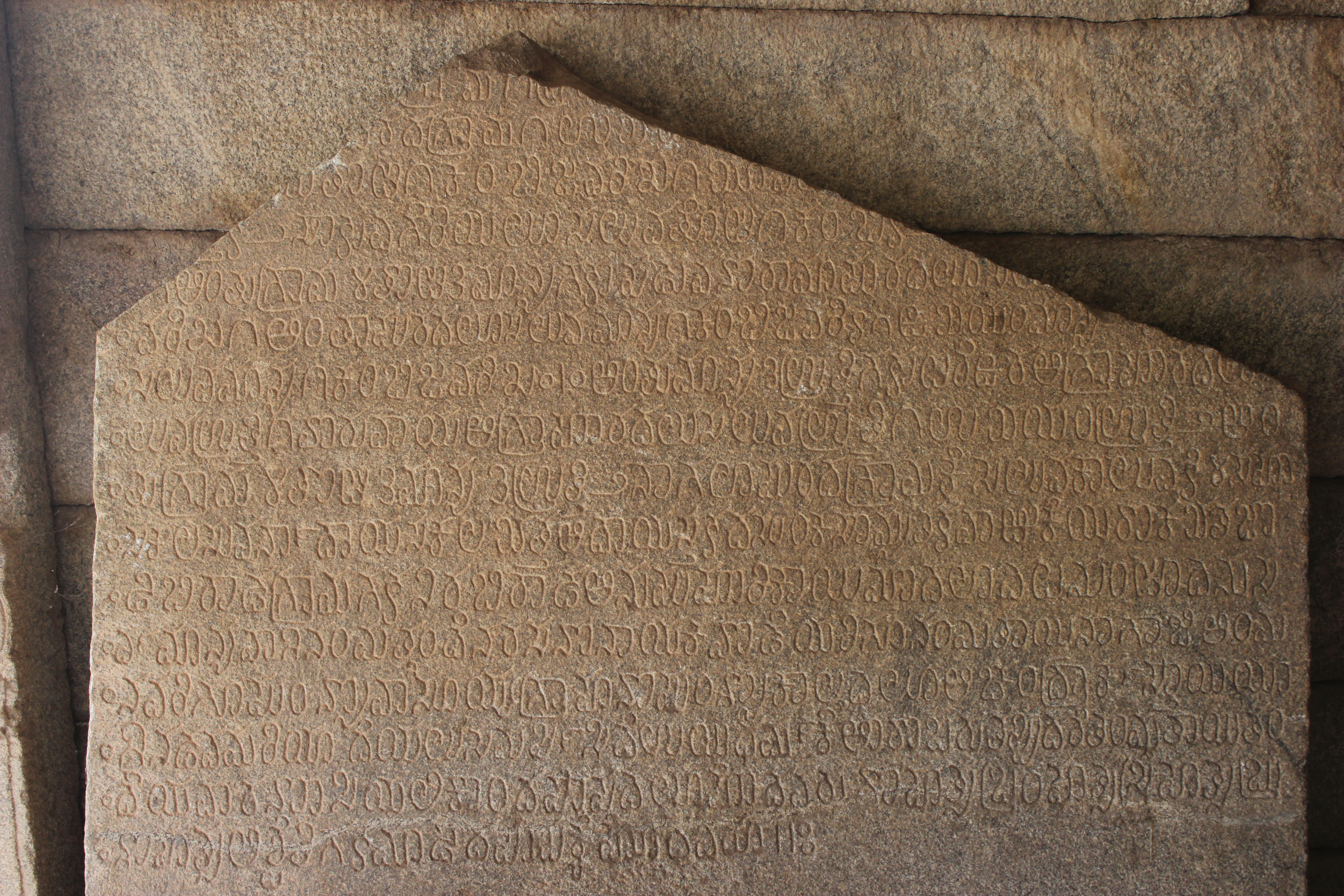 This photograph of a Kannada language inscription dated 1509 A.D. (called "dana shasana" or grant inscription) of King Krishnadeva Raya was taken by me in the underground Shiva (Prasanna Virupaksha) temple at Hampi, a UNESCO world heritage site in Bellary district, Karnataka state, India